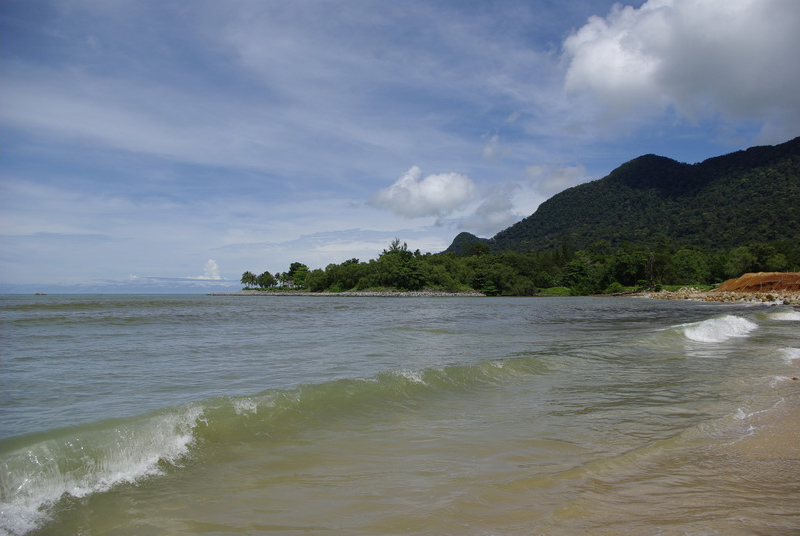 A Beach of Borneo island